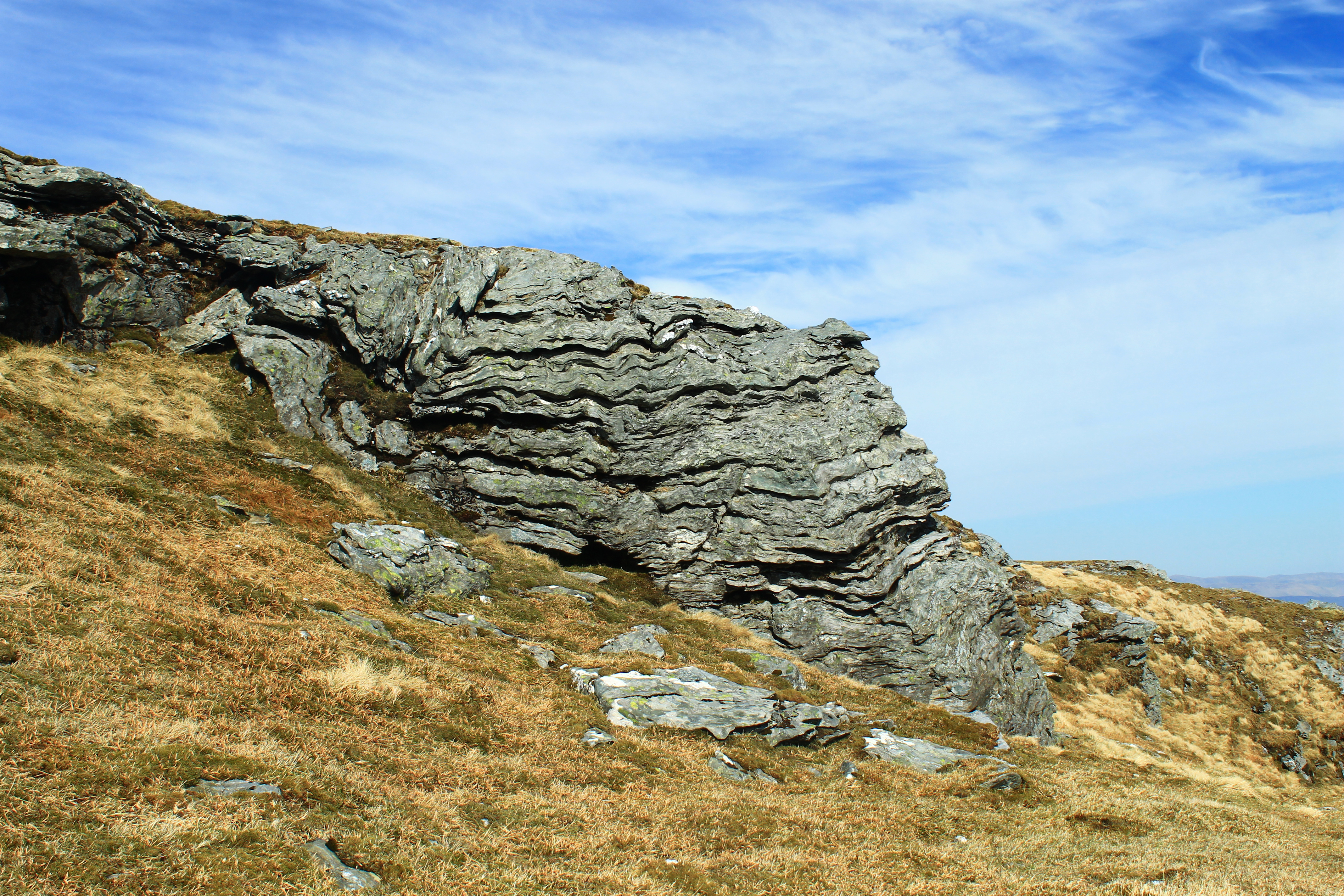 Folded, preferentially-weathered schist cropping out from the summit of Ben Vane